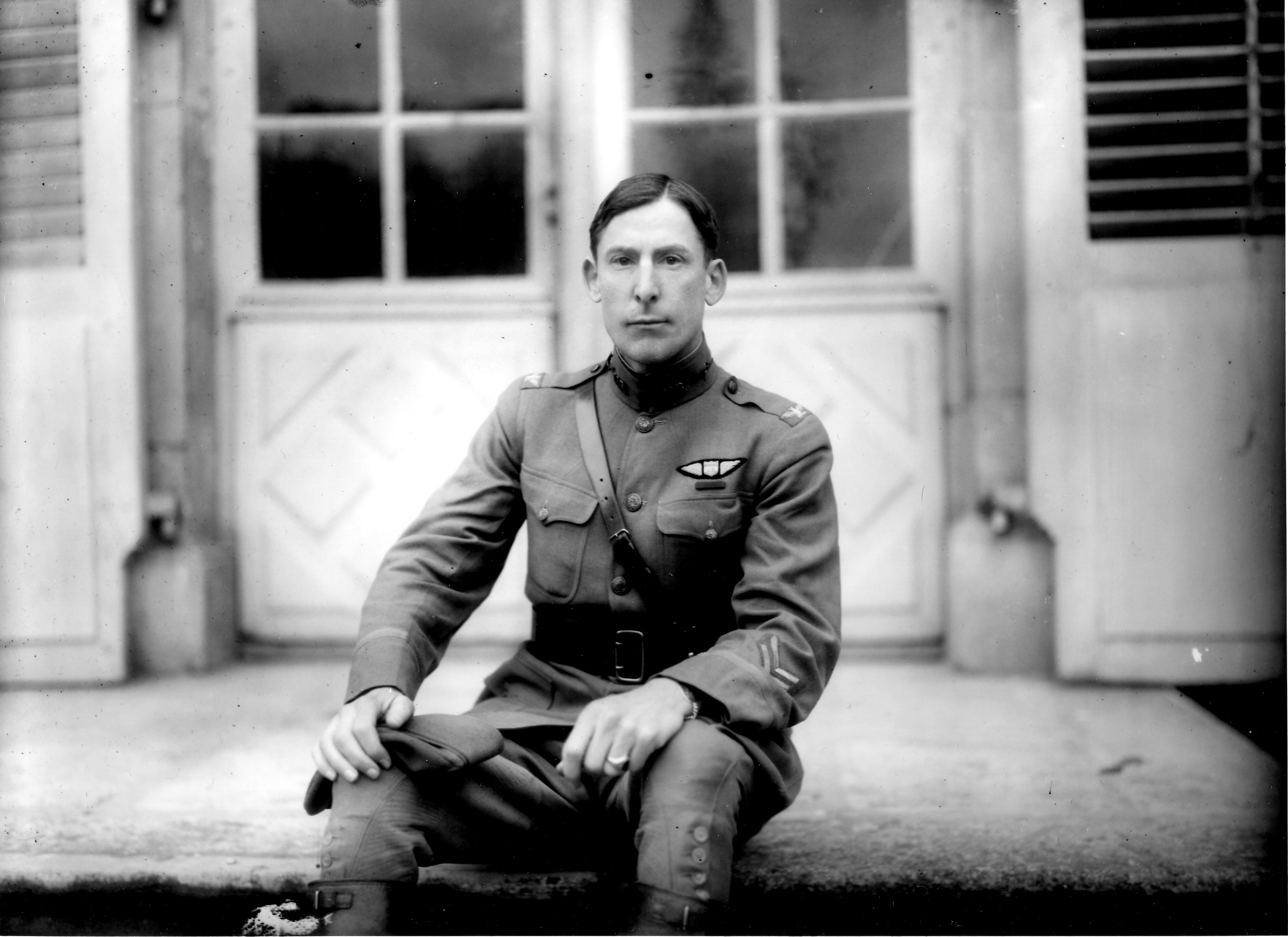 Col. Frank Lahm, the first man to be rated a pilot in the U.S. military service, flew with Orville Wright in the first cross country flight.